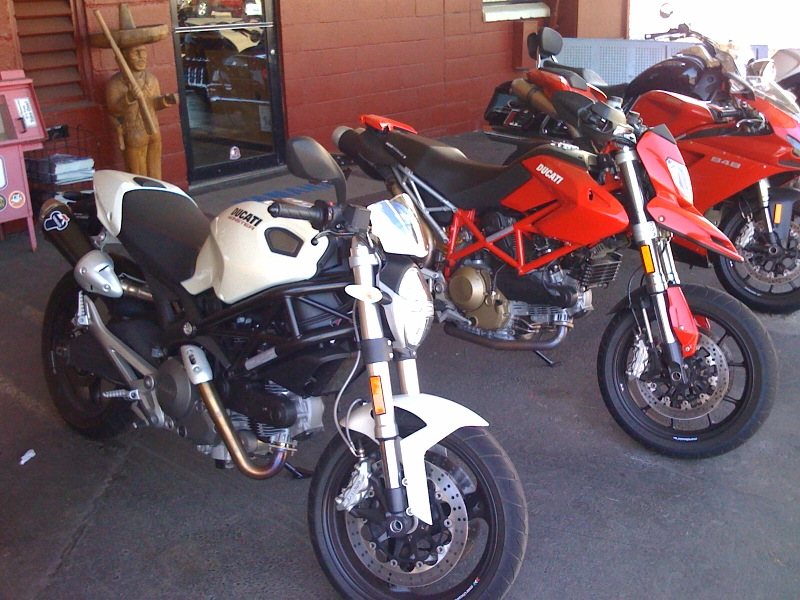 Ducati Monster 696 with Termignoni exhaust, in front of a Ducati Hypermotard, in front of Ducati 848